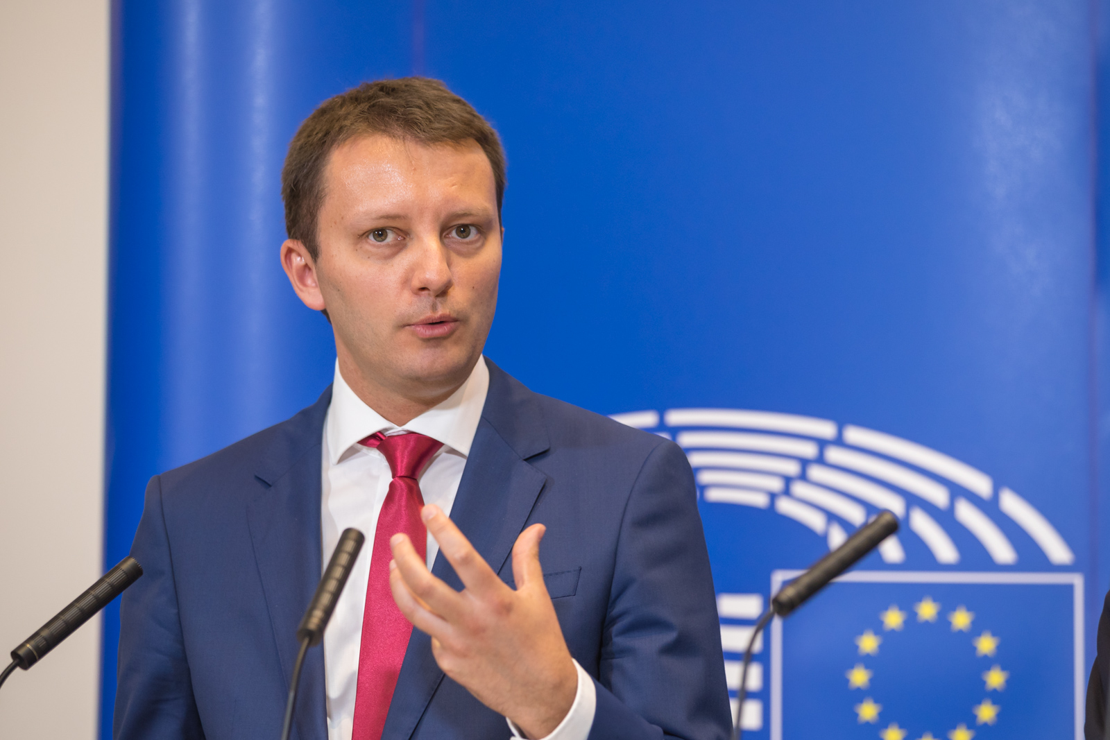 Siegfried Mureșan presenting the draft EU Budget 2018